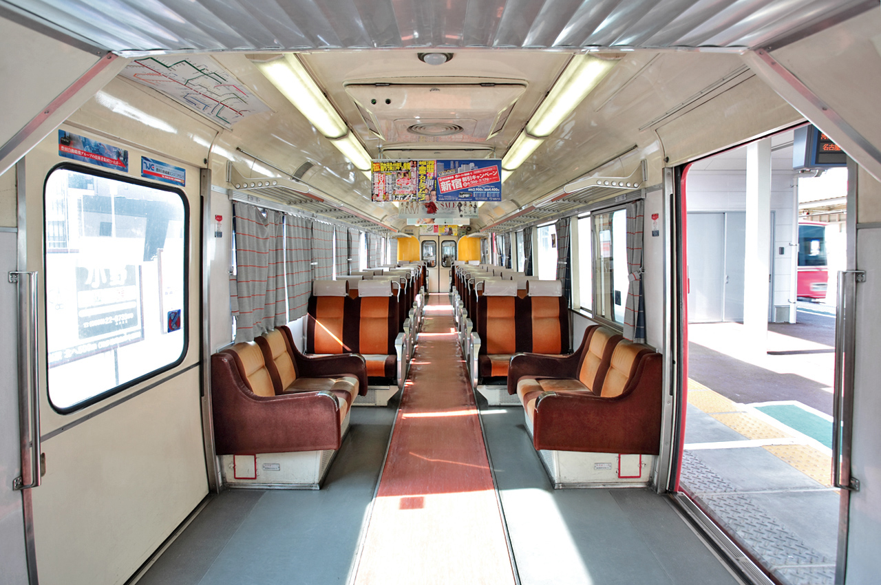 Interior of Meitetsu Panorama Car 7000 series EMU ( Mo 7012 ).